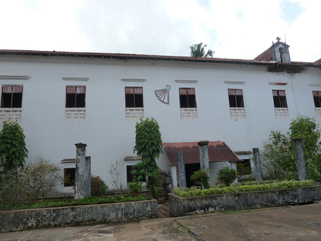 courtyard of the sem